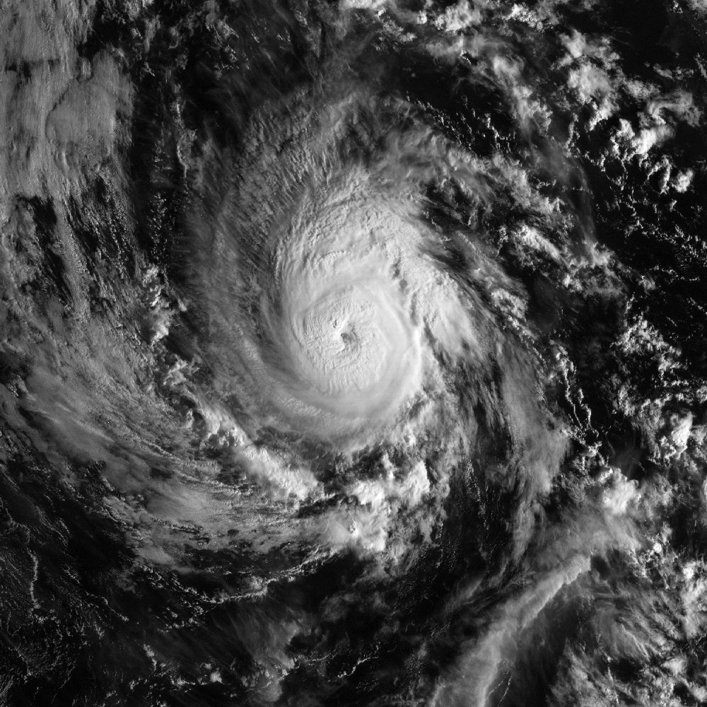 This image taken by the GOES-11 satellite shows Hurricane Paul in the Pacific Ocean at 1500 UTC on October 23, 2006. The storm's maximum sustained winds at the time were around 105 mph and the minimum central pressure was approximately 970 mb.